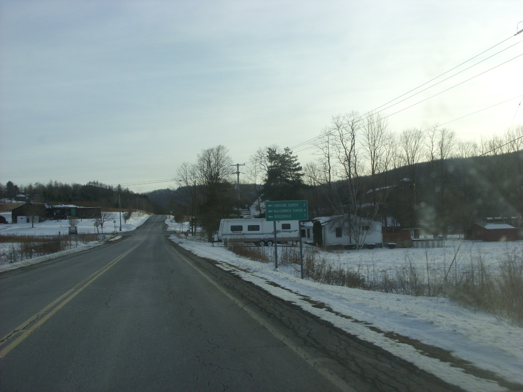 Tompkins County Route 115 in New York at the intersection with the Old 76 Road in Guide Board Corners, New York, a part of the town of Caroline. Until 1980, this was the southern terminus of NY 330.